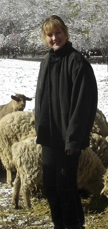 Norwegian author Marit Nicolaysen.